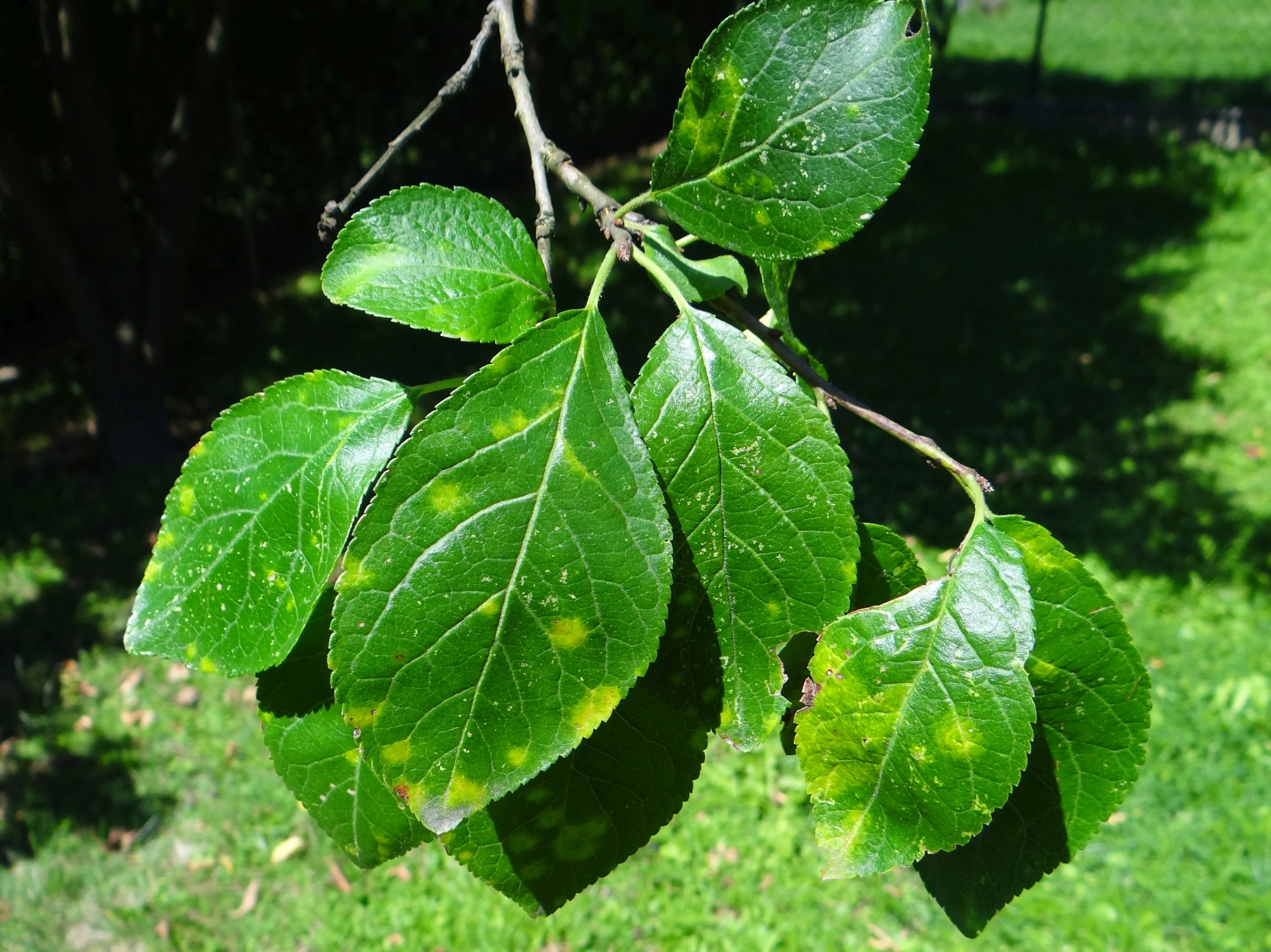 Sharka on Prunus domestica